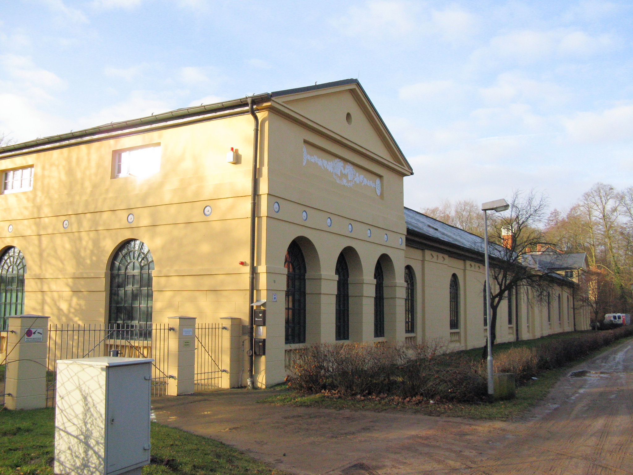 Stable in Ludwigslust, disctrict Ludwigslust-Parchim, Mecklenburg-Vorpommern, Germany